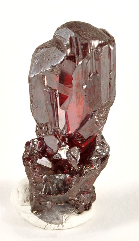 Proustite Locality: Schneeberg District, Erzgebirge, Saxony, Germany (Locality at ) Size: thumbnail, 2.7 x 1.2 x 1.2 cm Proustite The photos say it well, here! This large thumbnail is a stunning, display-quality piece with a 2 cm GEM proustite, perched on a natural pedestal of proustite. The major crystals are not only gemmy and deep red, but they are pristine. The piece is complete all around, and displays nicely from either side. With even the most minimal backlighting, you can see its ruby-red transparency. What i love about this most, as a competition-level thumbnail, is that the crystal habit is so distinct there is no thought that this is a Chanarcillo proustite, which is relatively more common and less valuable if the same size. The habit here is distinctive, and seldom seen in such quality. Although likely a very old specimen, it has been preserved well. ex Will Larson collection